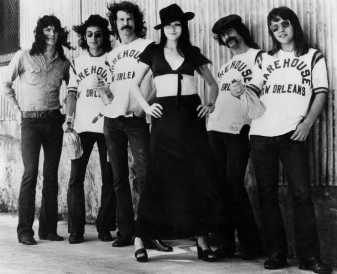 Publicity photo of the musical group It's a Beautiful Day.